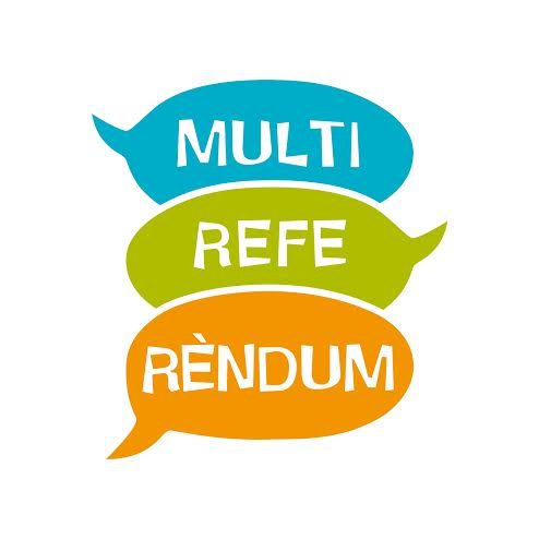 Logo of Multireferendum, democratic project started in Catalonia during the European Parliament election, 2014